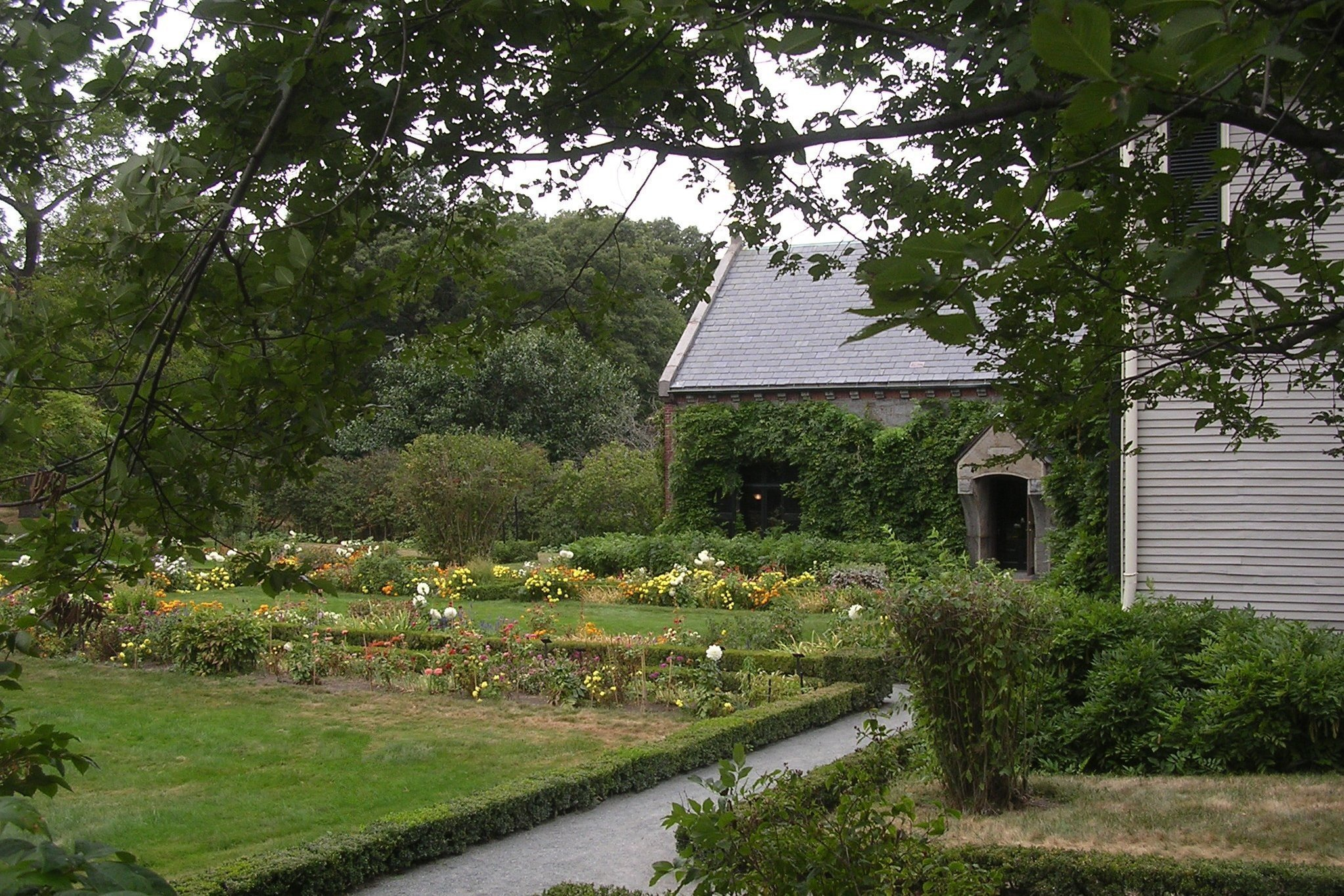 Gardens at the Old House, Adams National Historical Park, Quincy Massachusetts